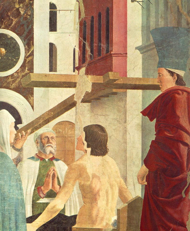 PIERO della FRANCESCA Discovery and Proof of the True Cross Fresco, 356 x 747 cm San Francesco, Arezzo